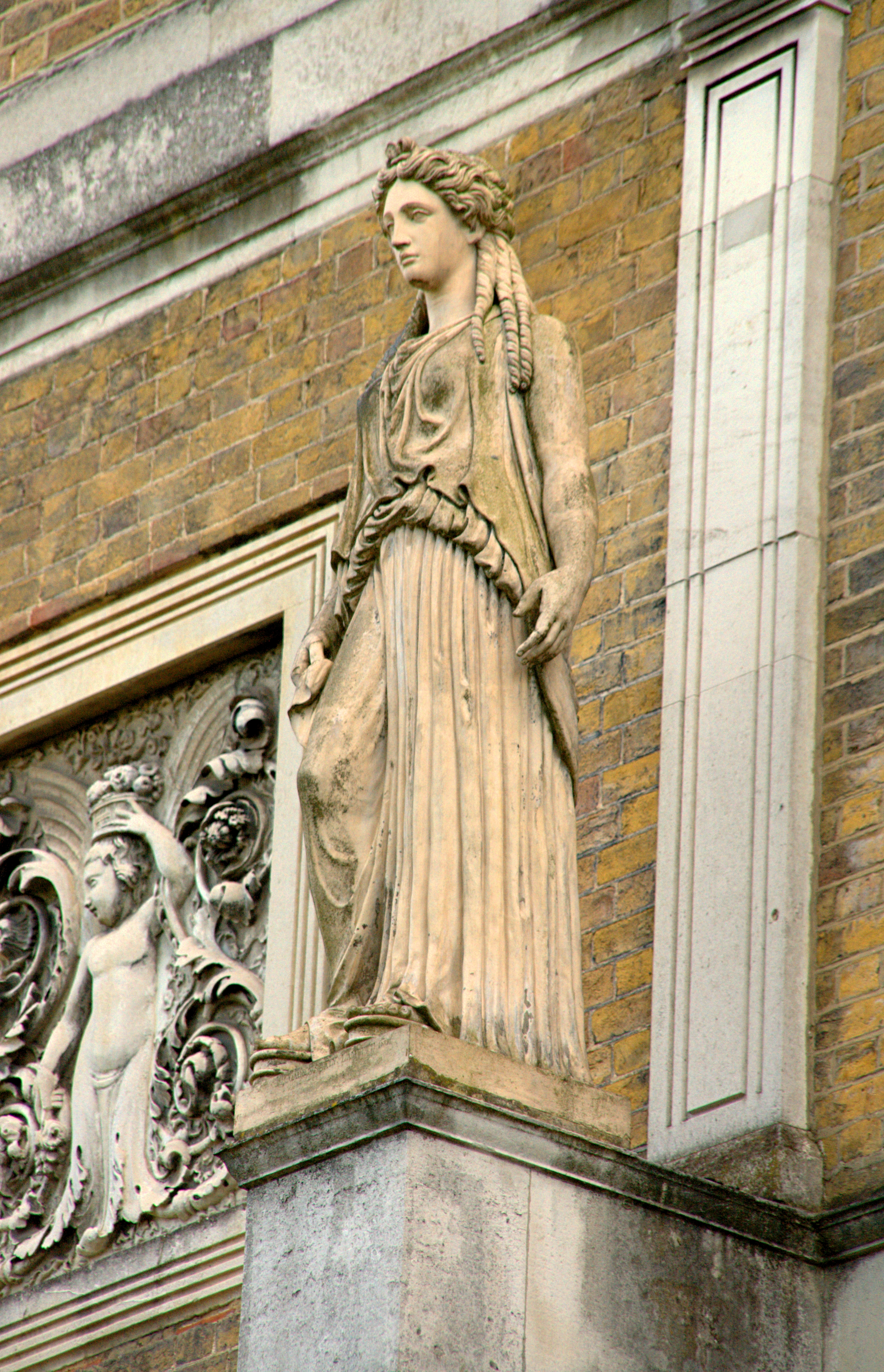 One of the four caryatids that atop the columns of the east front of Pitzhanger Manor. Made of durable Coade stone (c 1800). They are thought to be modeled on the caryatids that enclose the sanctuary of Pandrosus, Athens.